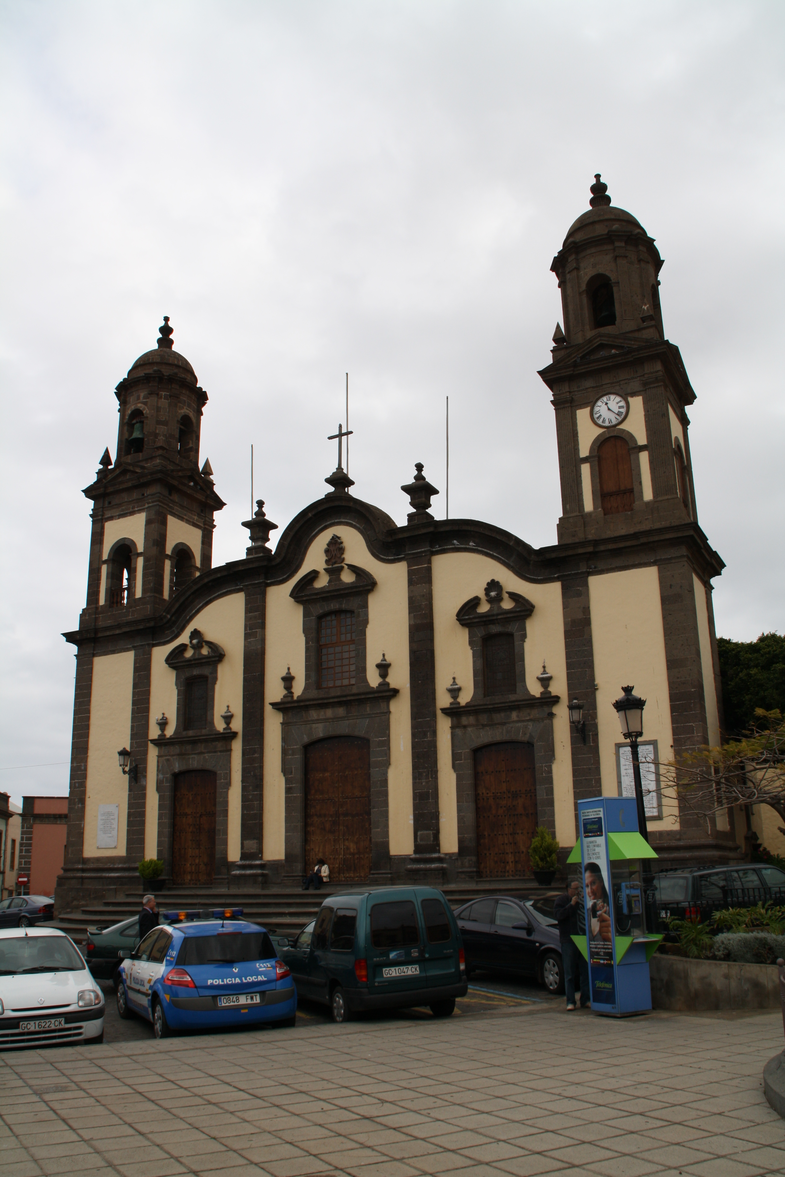 Church Santa María de Guía, Santa María de Guía de Gran Canaria